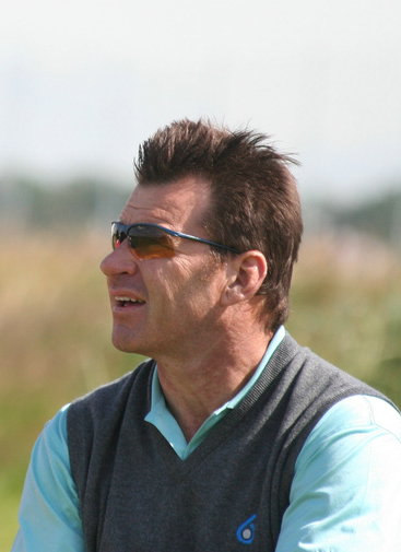 The British professional golfer Nick Faldo.